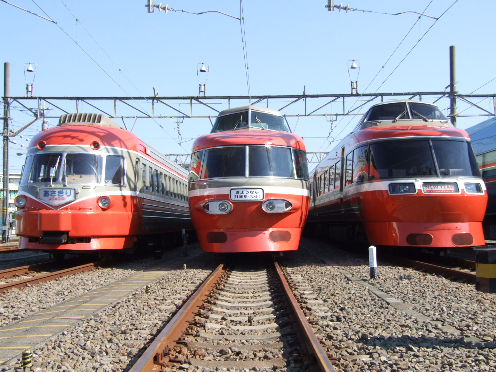 Old Coloring Odakyu Romance Cars at Ebina Inspection Depot